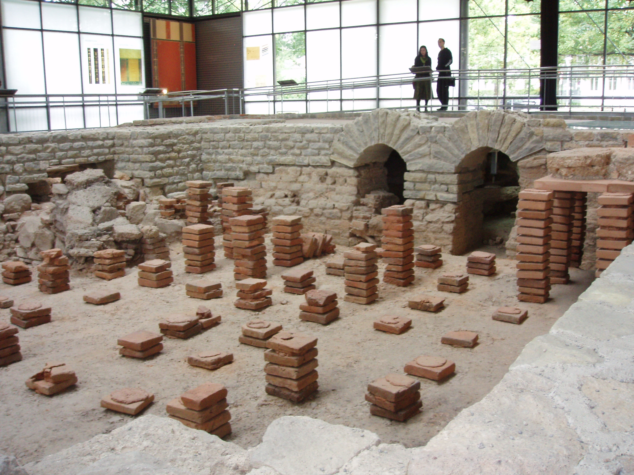 Cambodunum, Hypocaustum